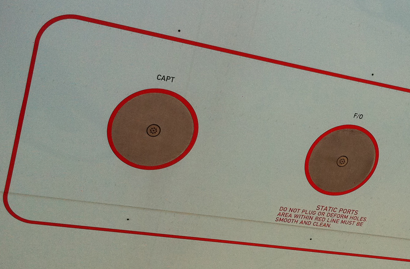 Static ports on the starboard fuselage of an Airbus A330 aircraft.